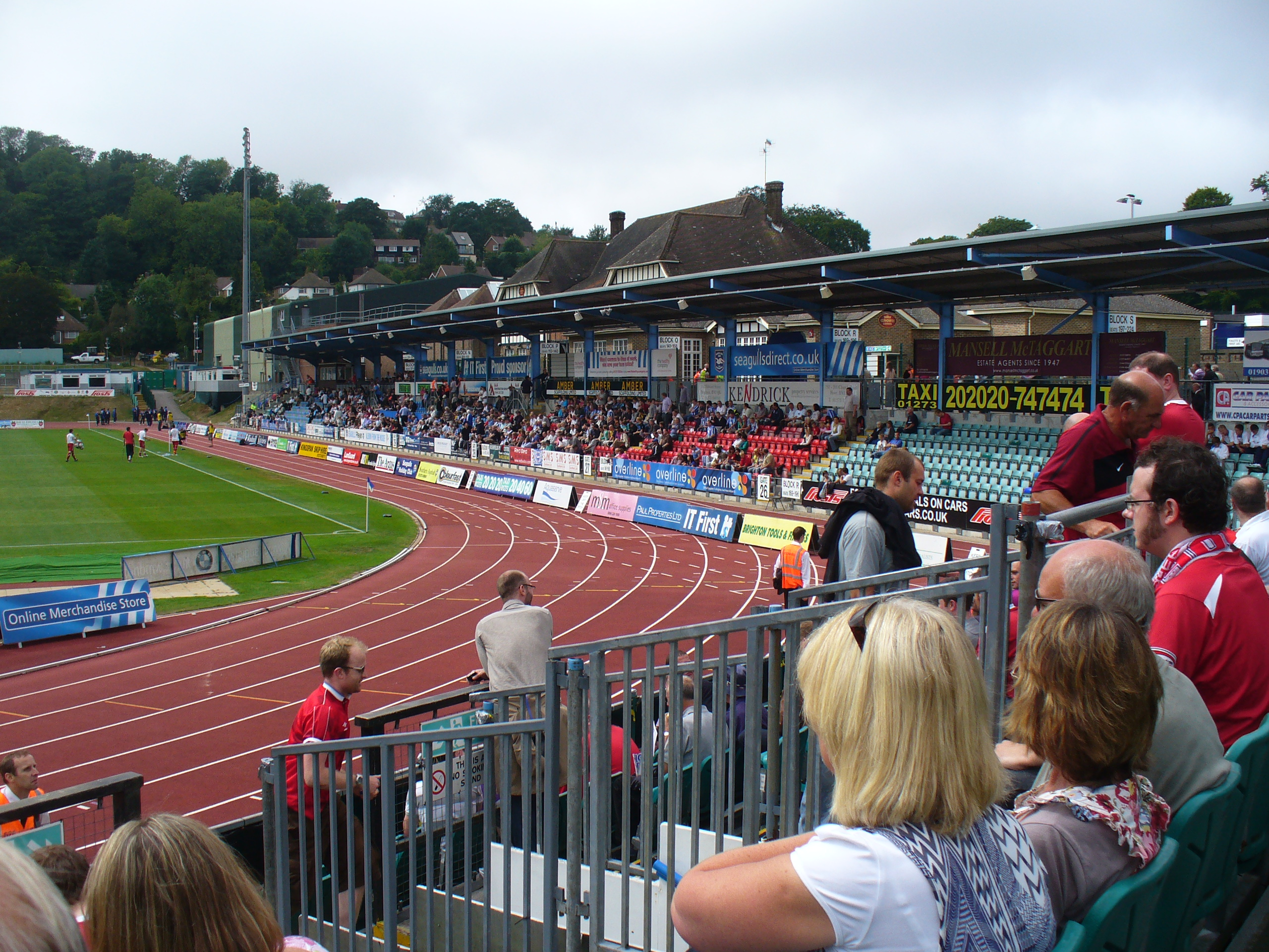 Brighton's Withdean StadiumWithdean Stadium was formerly known as the Brighton Sports Arena. It is now an athletics stadium but is also the temporary home of Brighton and Hove Albion F.C. until their new home at nearby Falmer is completed. The photograph shows the North Stand. In the foreground are Aberdeen fans gathering for the Brighton-Aberdeen pre-season friendly match.